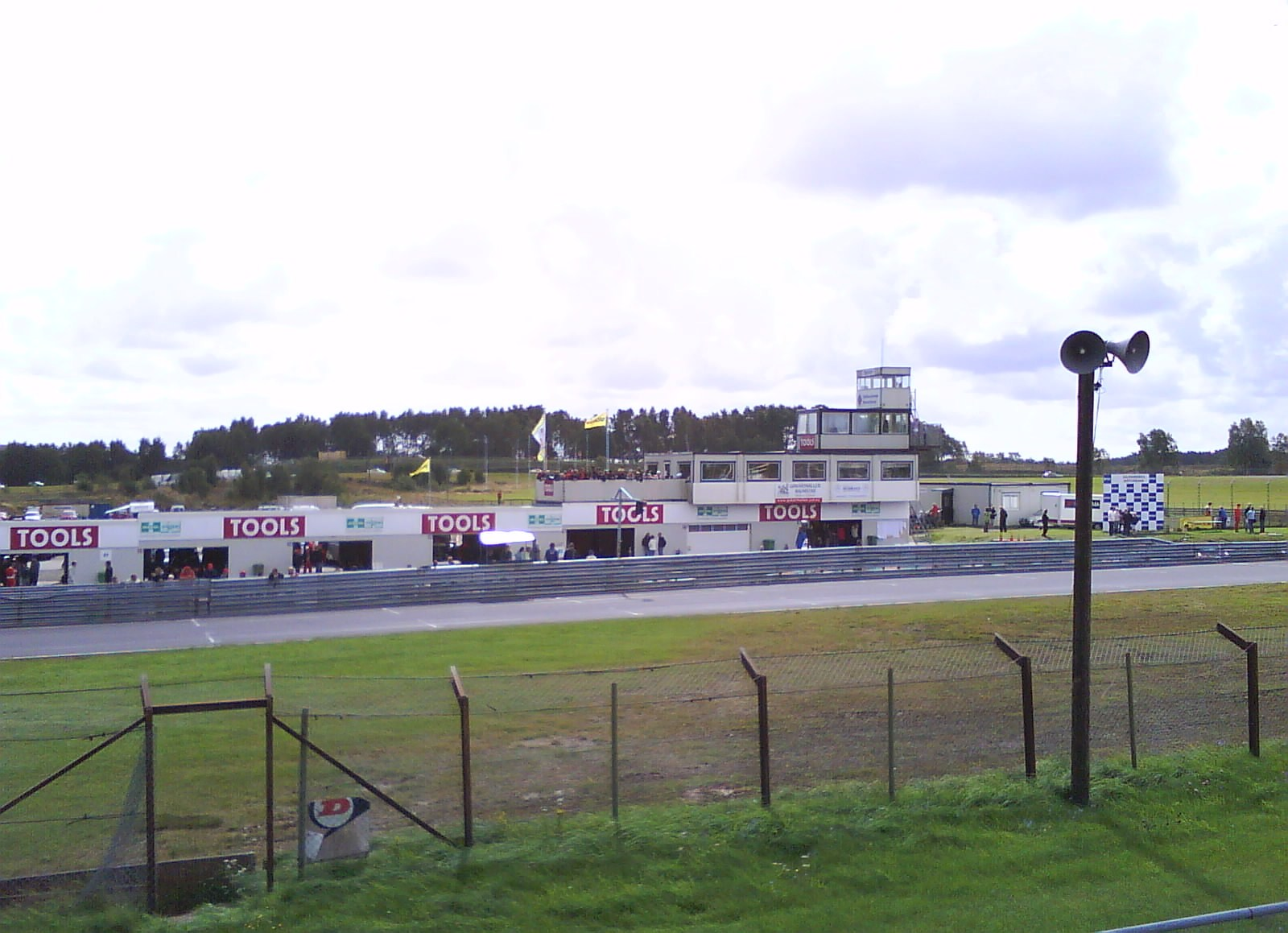 A part of the pit lane at Falkenbergs Motorbana.